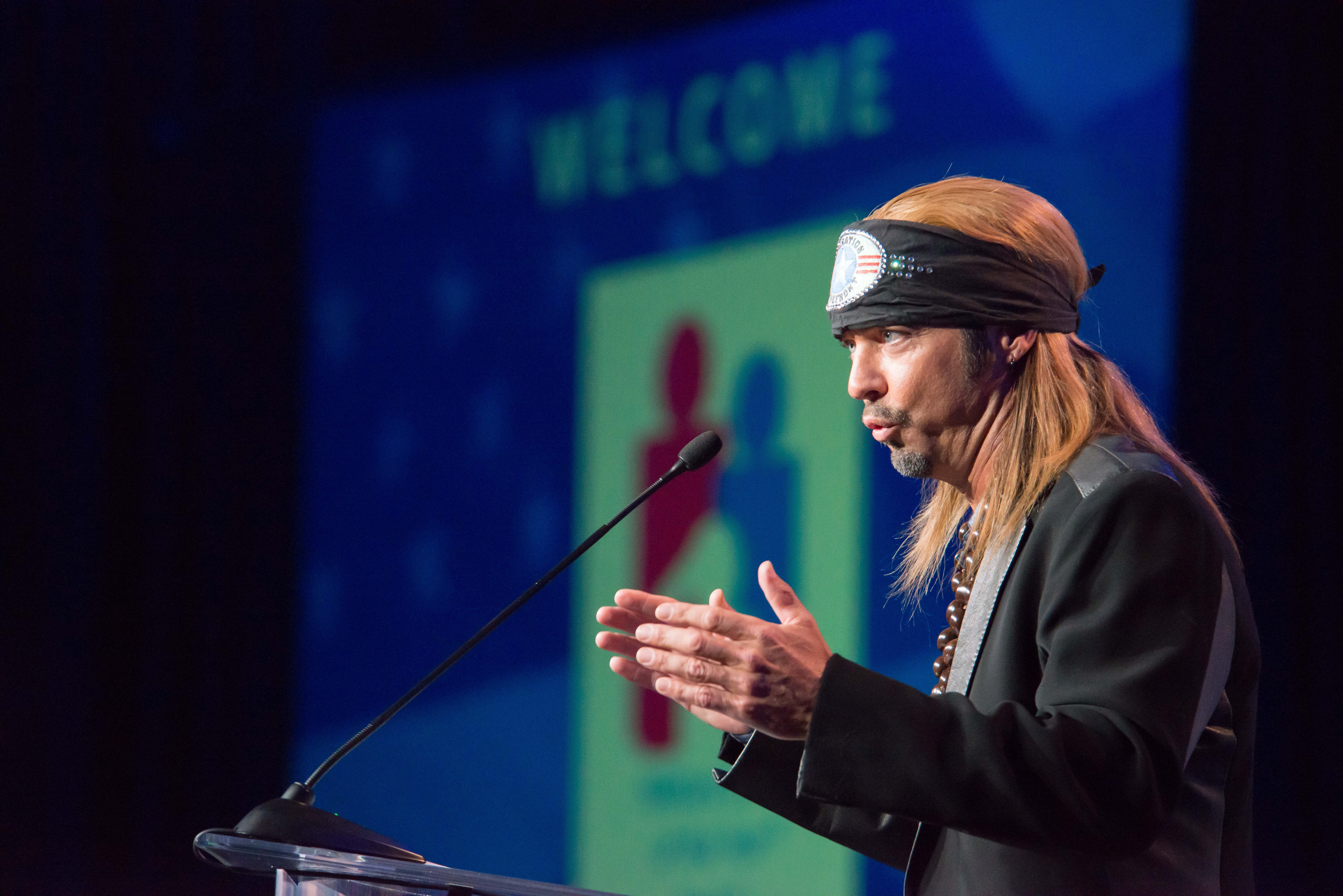 Bret Michaels speaks during the Operation Homefront sixth annual Military Child of the Year Award event in Arlington, Va., April 10, 2014. The Military Child of the Year Award is presented to a military child from each Service branch who demonstrated resiliency, leadership and achievement.